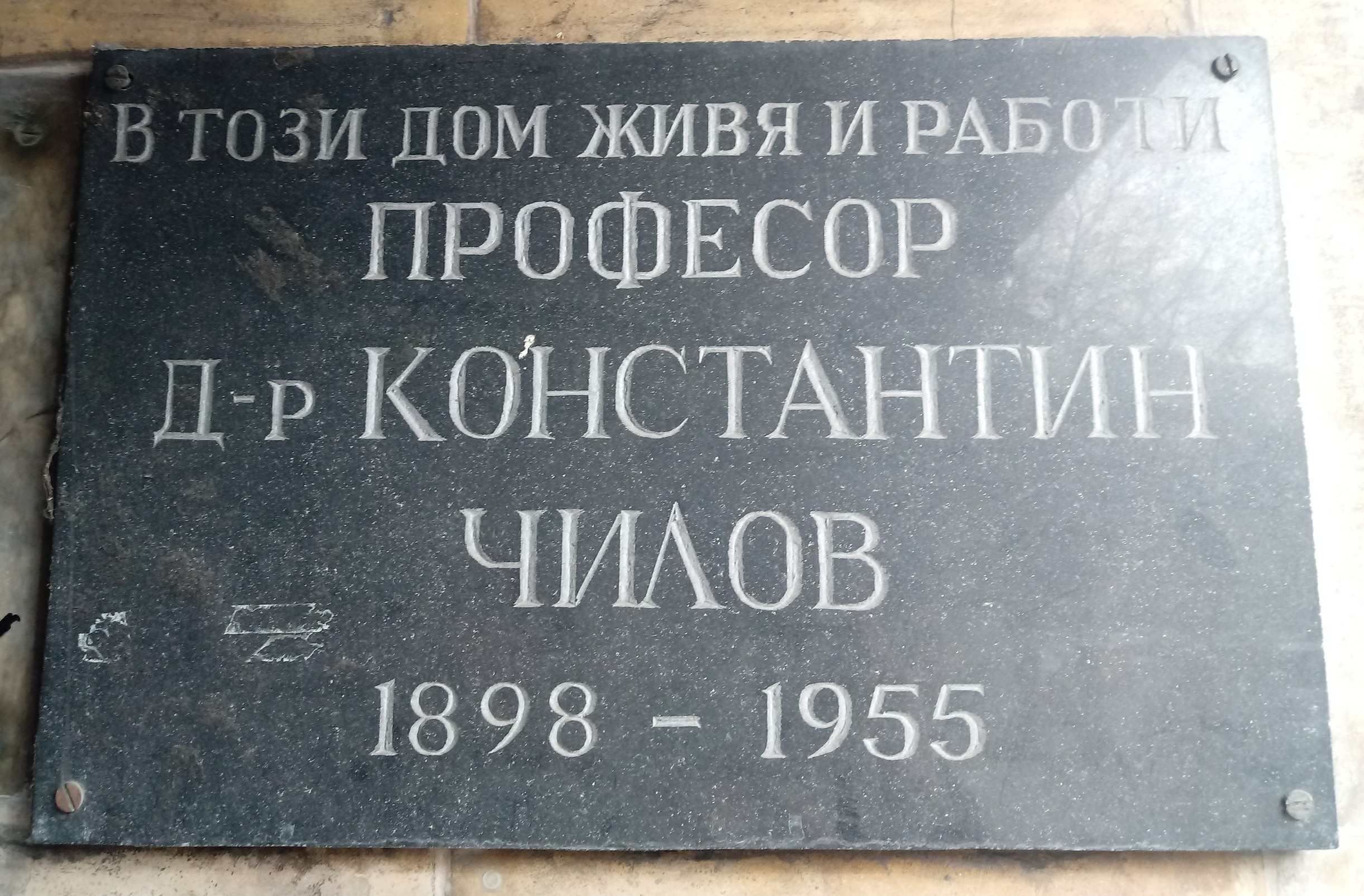 Konstantin Chilov memorial plaque, 54 Patriarch Evtimiy Blvd, Sofia